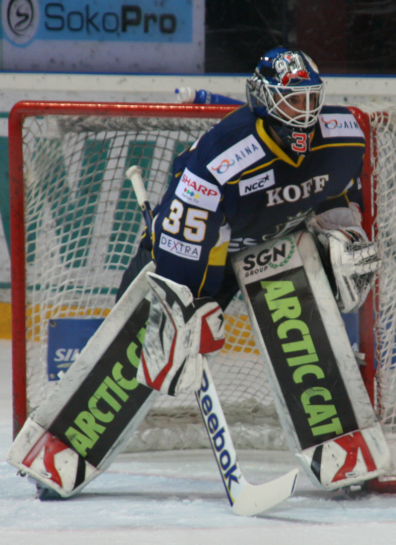 Ice Hockey Team Espoo Blues' Goaltender #35 Patrick Galbraith